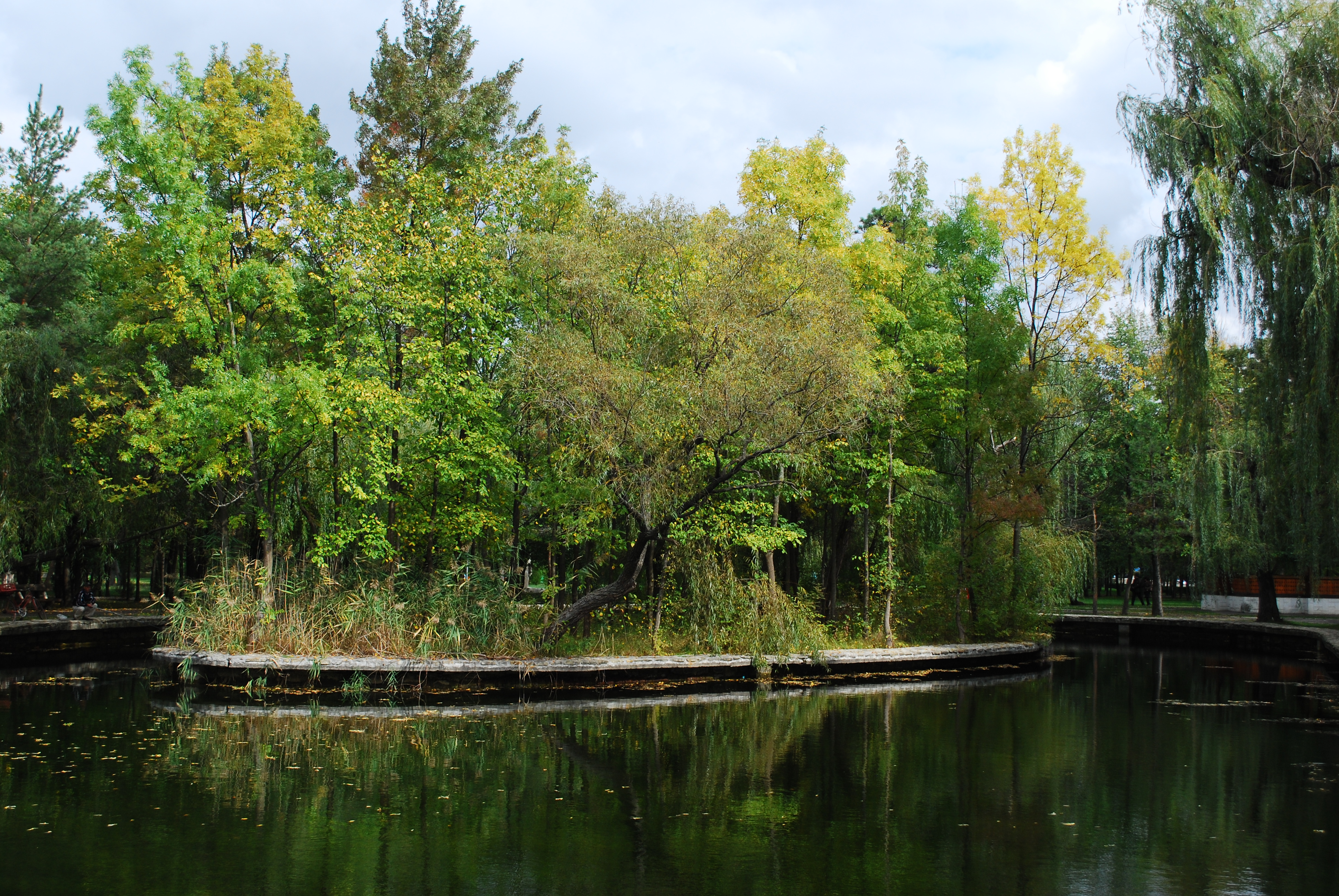 The eastern island on the lake in Crâng Park, Buzău, Romania